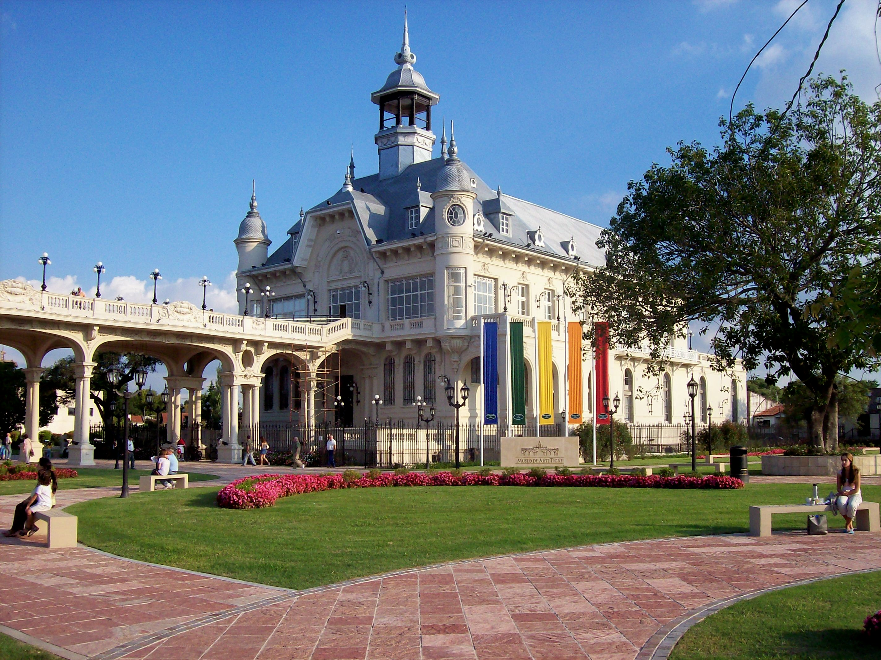 Museo de Arte de Tigre (MAT), in Paseo Victorica 972 (streets Victorica y Pirovano). This photograph was taken from N to S